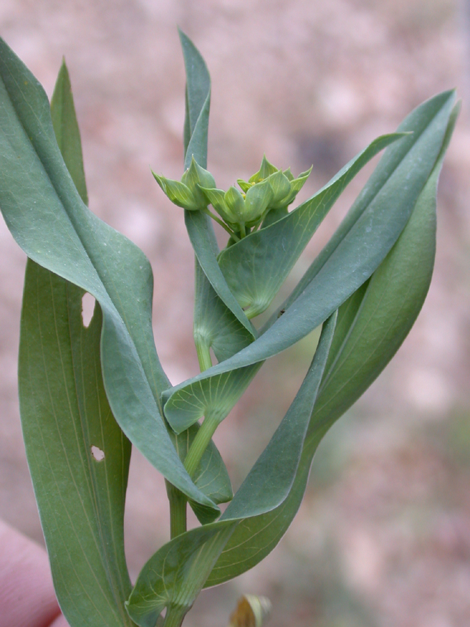 Bupleurum lancifolium Hornem. (צלע-שור אזמלנית), Mount Carmel, Israel, March 28, 2008.